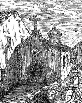 Picture is from the 19th century. Chapel demolished in 1898.